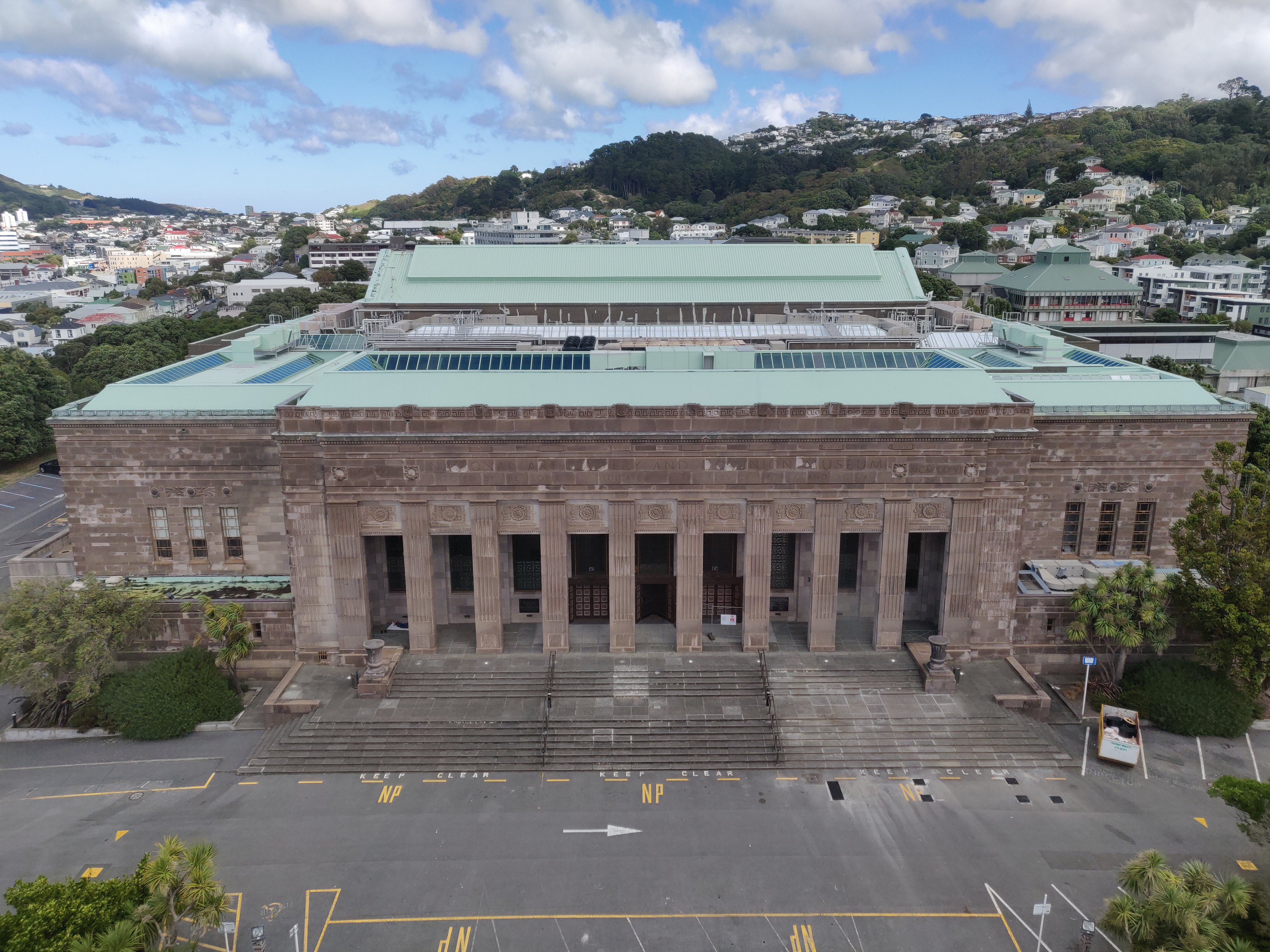 The former Dominion Museum viewed from the Carillon